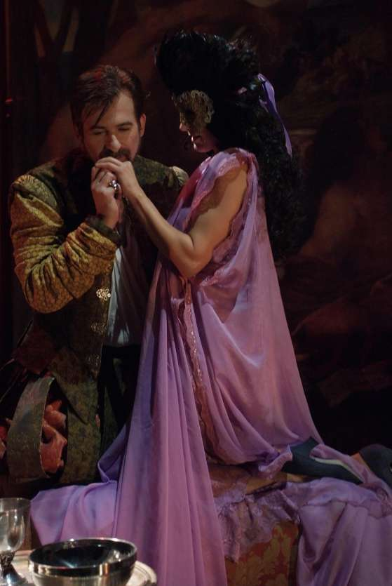 Spanish Actor Juanjo Prats and Actress Alicia Ramírez performing Lope de Vega's play "La viuda valenciana"